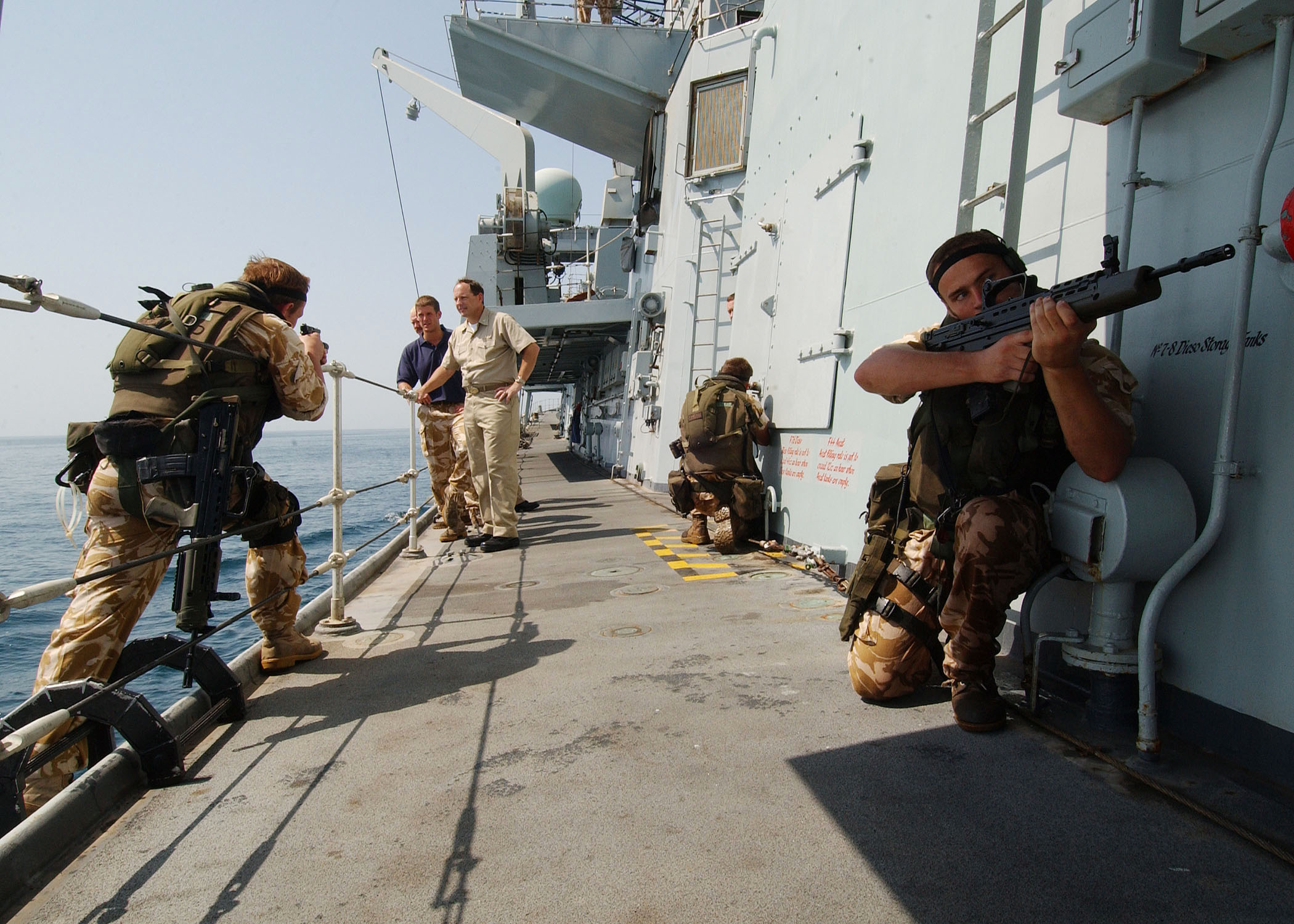 Commander, Destroyer Squadron Two Four (COMDESRON 24), Capt. Anthony Kurta, observes the boarding procedures demonstrated by the British Royal Marines aboard the frigate HMS Somerset (F 82). Kurta met with the Sailors and staff during his visit to Somerset in the Arabian Gulf while embarked aboard the aircraft carrier USS John F. Kennedy. Kennedy and her embarked Carrier Air Wing Seventeen (CVW-17) are on deployment conducting missions in support of Operation Iraqi Freedom (OIF) and Summer Pulse 2004. Summer Pulse is the deployment of seven carrier strike groups (CSGs), demonstrating the ability of the Navy to provide credible combat capability across the globe, in five theaters with other U.S., allied, and coalition military forces, under its new Fleet Response Plan (FRP).